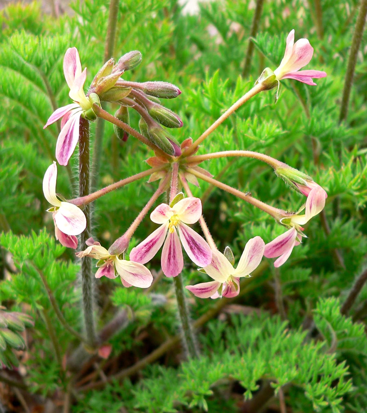 Photo of Pelargonium triste at the University of California Botanical Garden